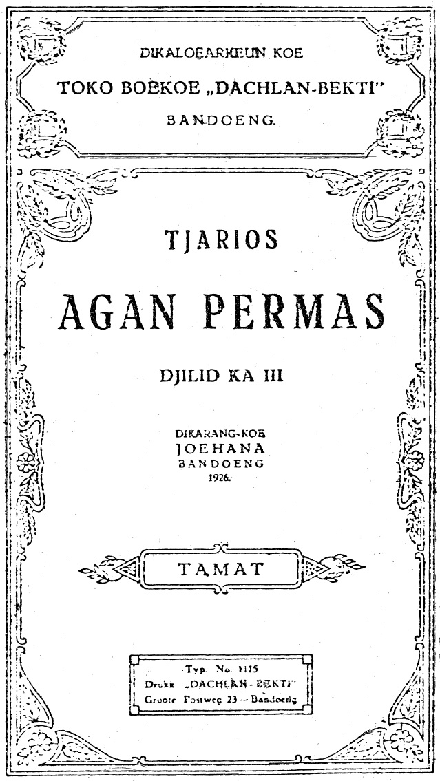 Cover for the novel Tjarios Agan Permas by Joehana